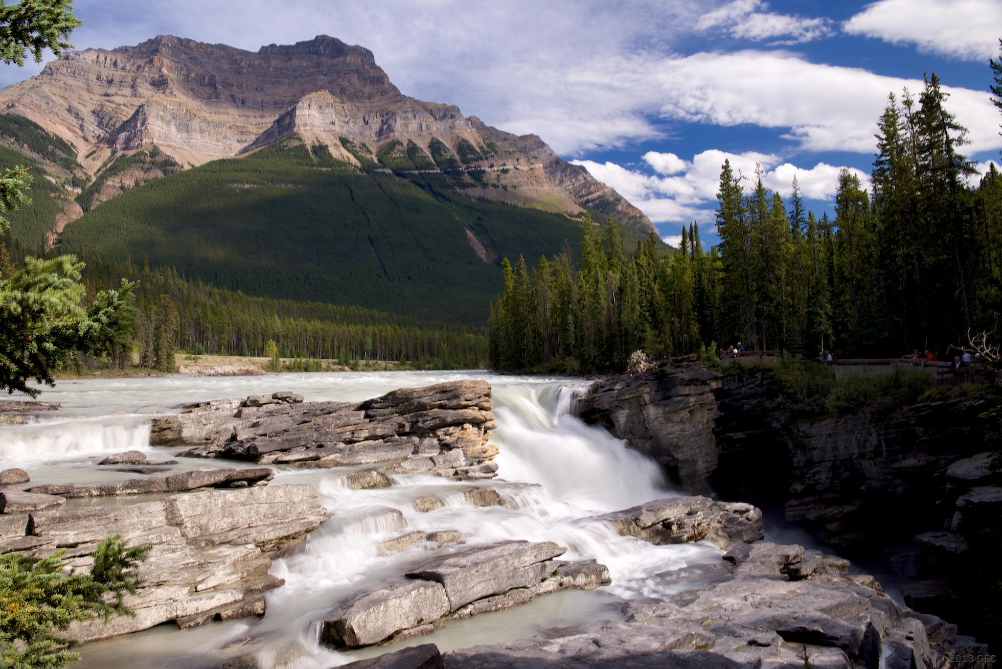 The meltwater from the Columbia Glaciers flow to the Athabasca River and then to Lake Athabasca. Mount Edith Cavell in the background.